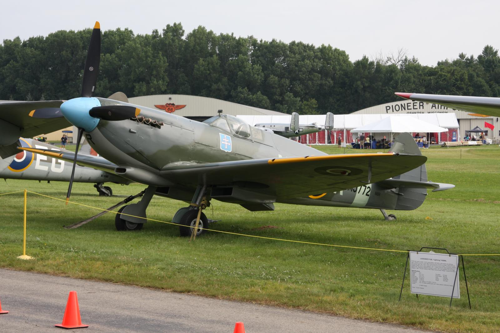 Supermarine Spitfire MJ772, at the 2010 Oshkosh Air Show.